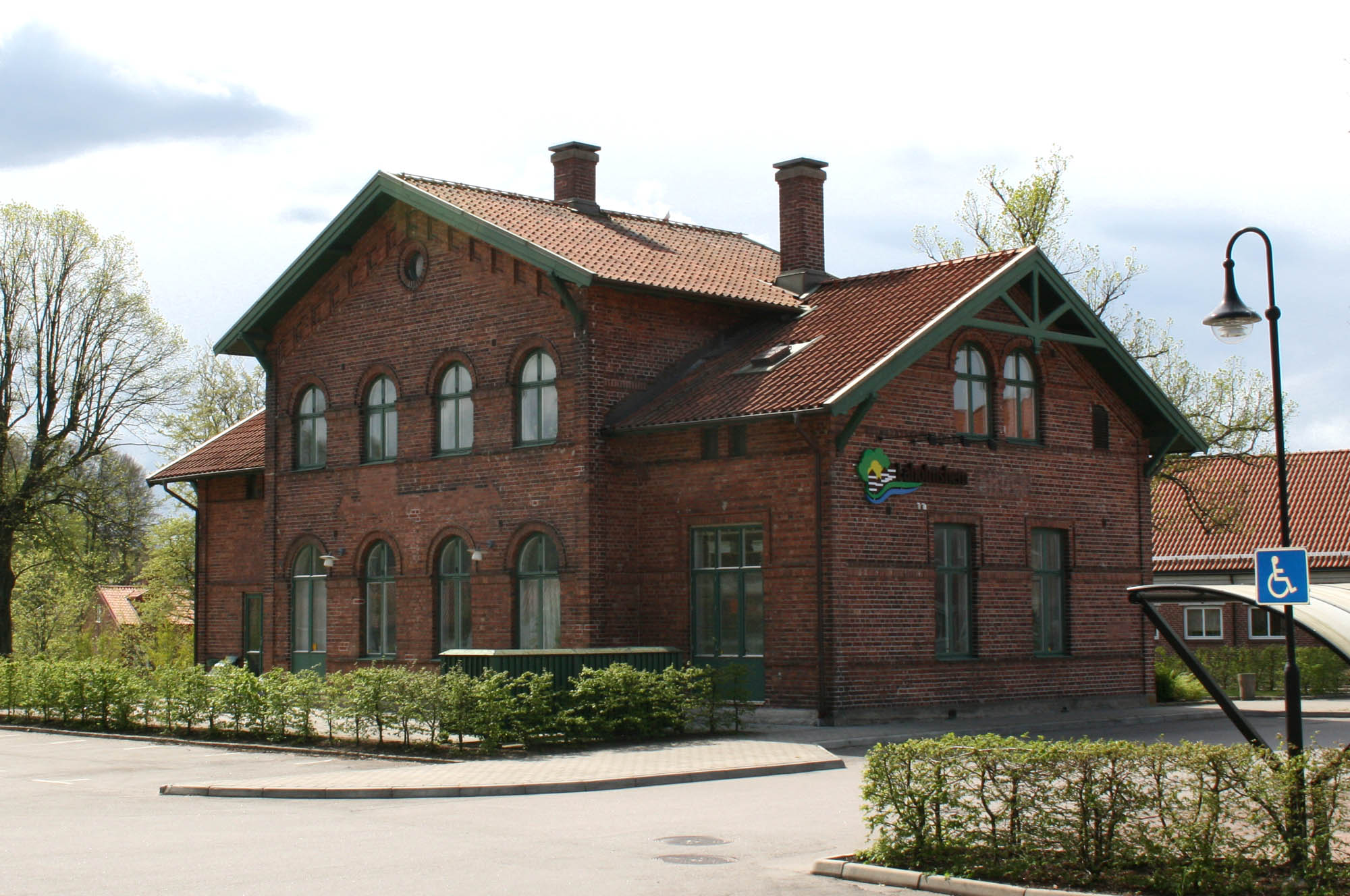 The old railway station at Laholm in Sweden.